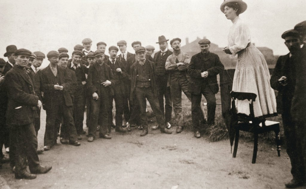 Una Dugdale, British suffragette, campaigning at the Newcastle by-election, September 1908. Una Dugdale's (1880-1975) sisters, Joan and Daisy, were also suffragettes. In 1912 she married Victor Duval, founder and Honorary Secretary of the Men's Political Union for Women's Enfranchisement, causing a stir when she refused to repeat the word obey in the marriage vows.